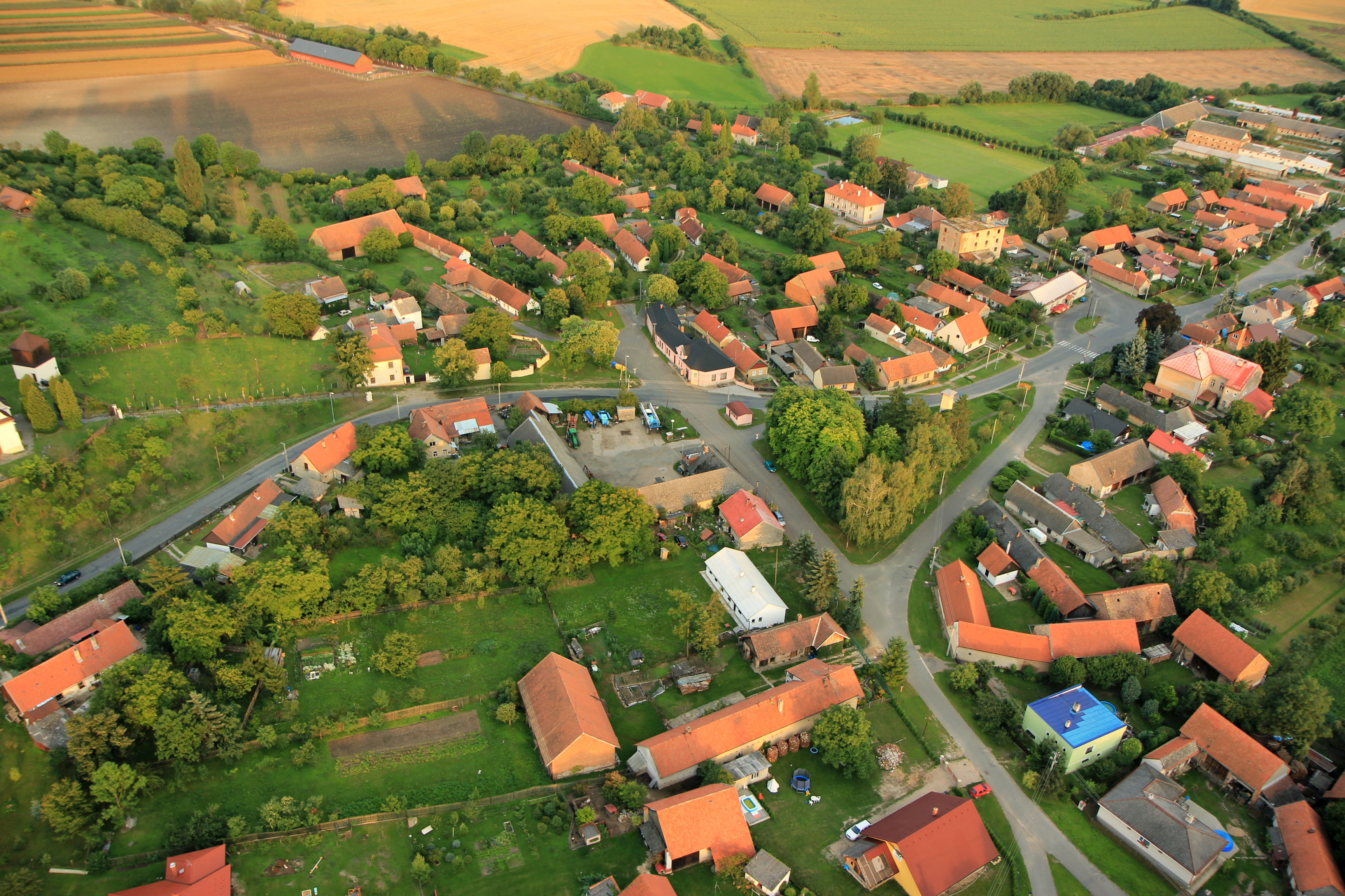 Aerial view of Mcely village, Czech Republic